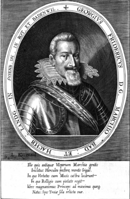 Margrave Georg Friedrich of Baden-Durlach (1620)